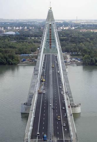 Megyeri bridge, Hungary, aerial photography